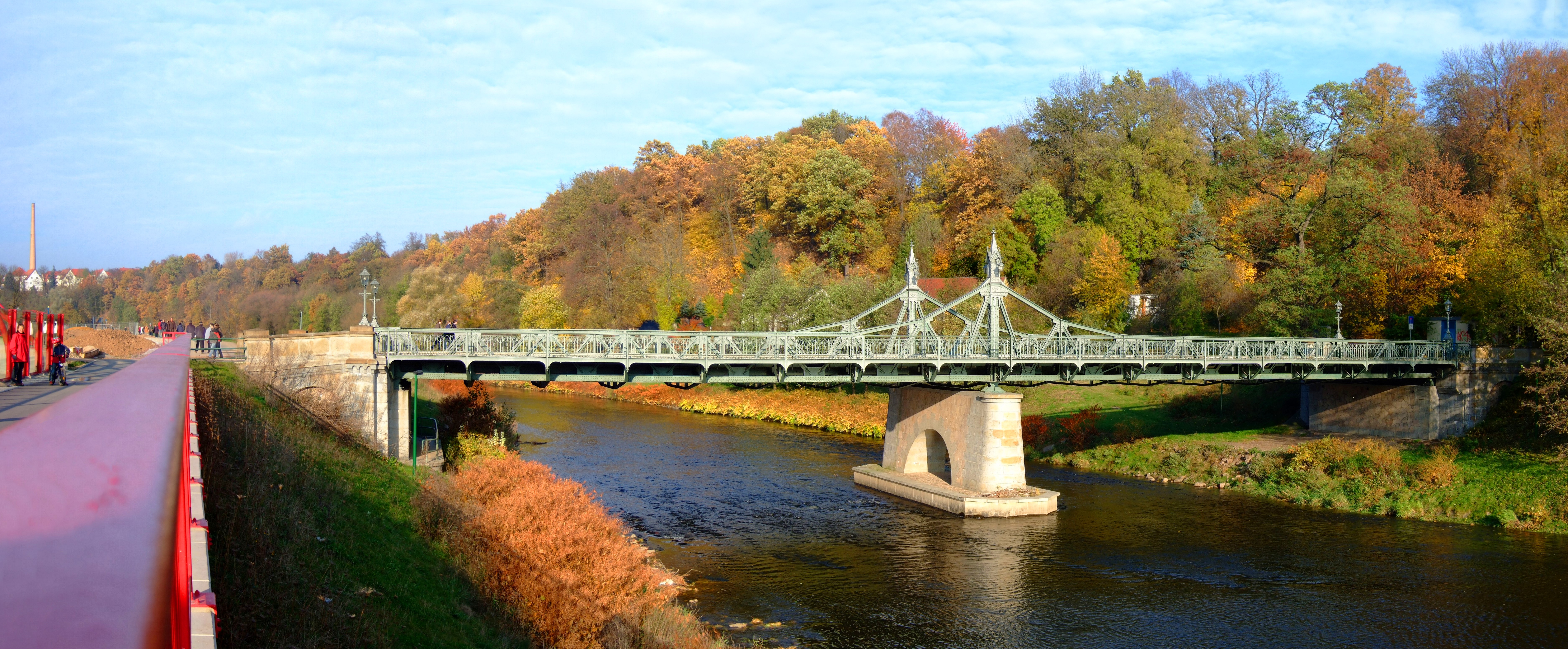 This photo shows the "Paradise Bridge" in the Town of Zwickau, Saxony, Germany